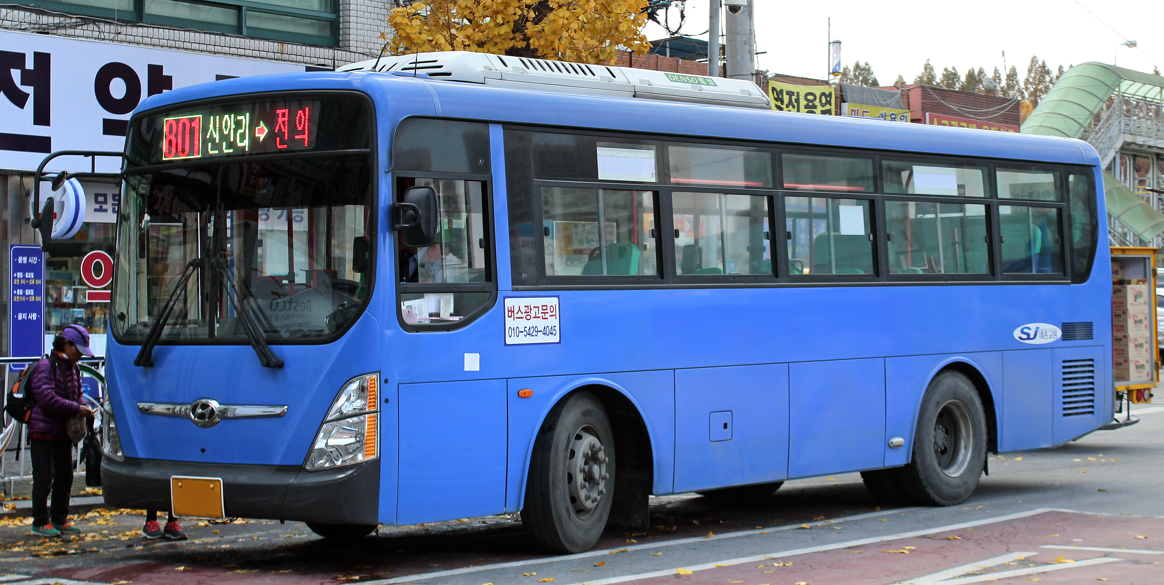 SJT 801 Northbound @Jochiwon Station